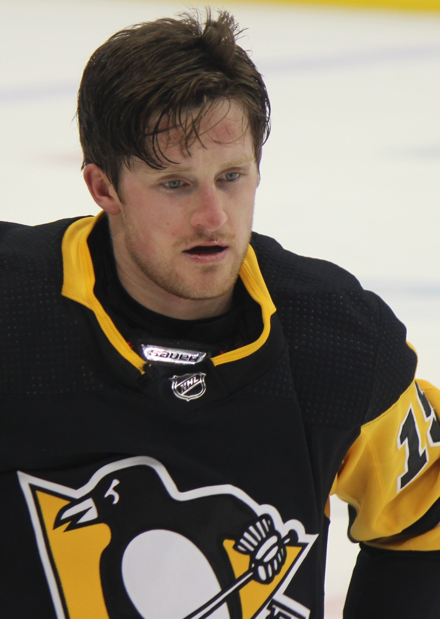 Pittsburgh Penguins forward Jared McCann